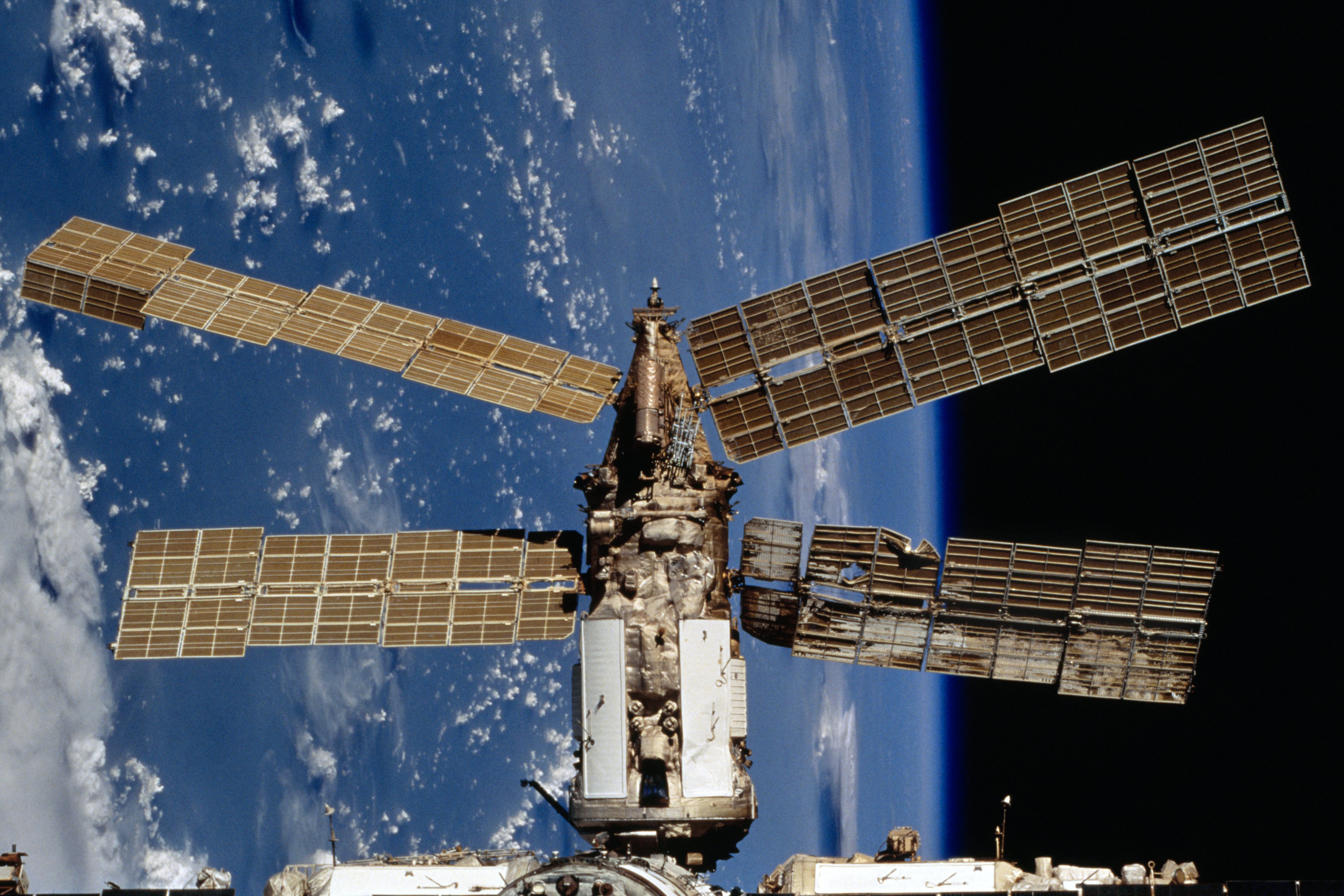 Survey views of the Mir space station taken by the crew of the STS-86 orbiter Atlantis after undocking from the station include: Full view of Mir with an Earth limb in the background (001-9). Spektr module with the damaged radiator and solar array (SP1) in the view (010-5,019-21,028-30). Top view of the Progress resupply vessel which is docked to the Kvant module (016-8, 022-4). Progress resupply vessel, Kvant and Base Block (025-7). Kvant and Base Block (031-3). Dark views of Docking Module and solar array (034-9,043-5). Solar arrays (040-2). View 007 was selected by PAO to be released to the public.